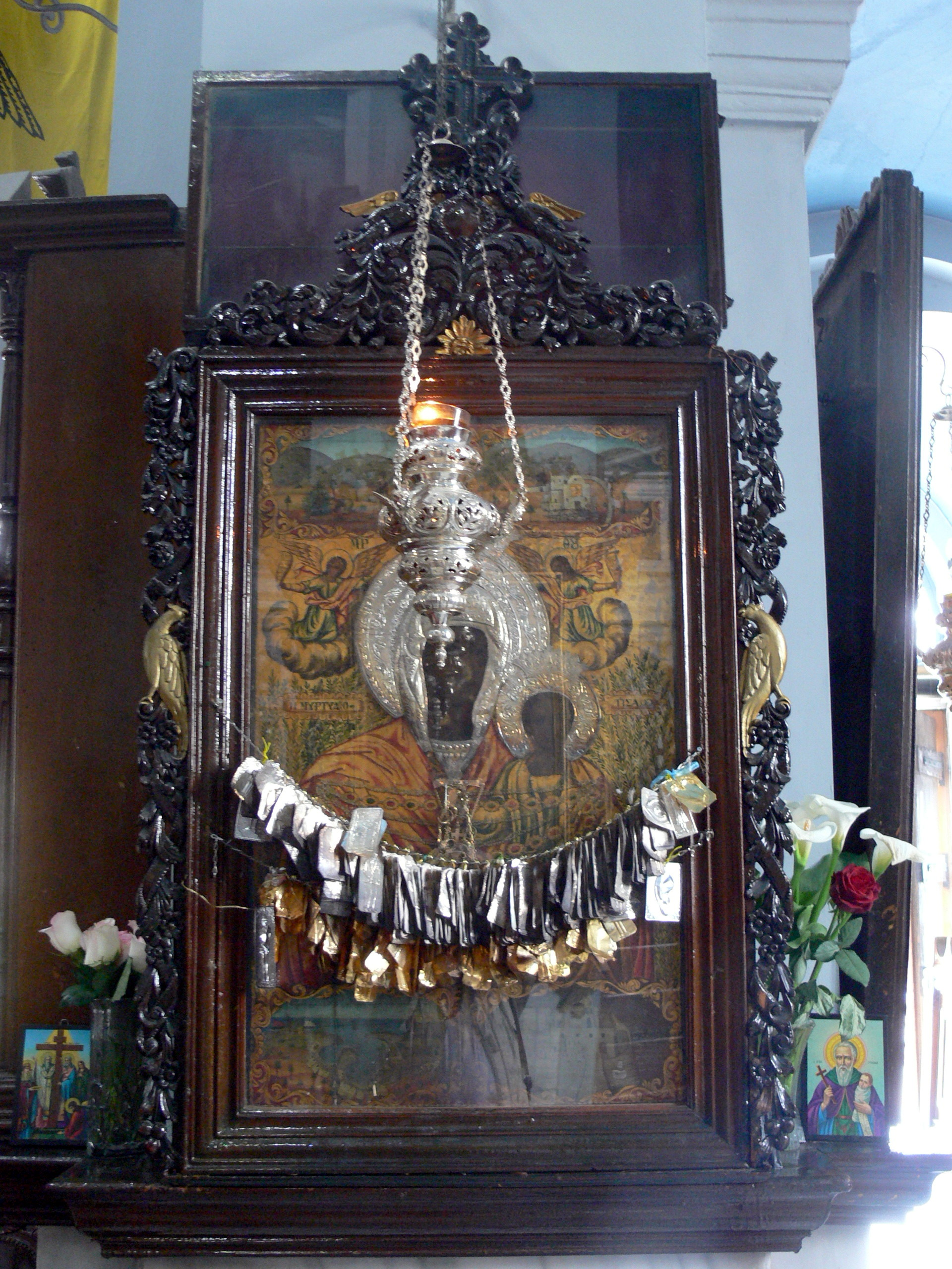 Cathedral of Chania ( Crete ). Icon of a black Madonna.